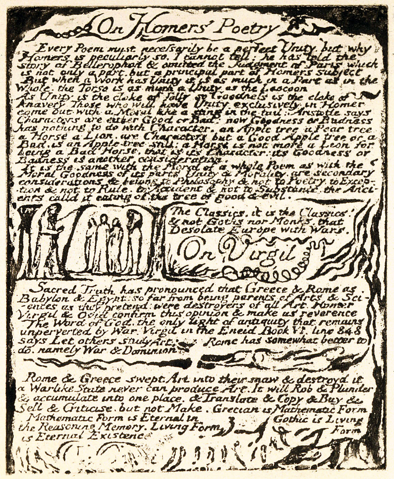 On Homers Poetry On Virgil, copy F, c1822 Morgan Library and Museum